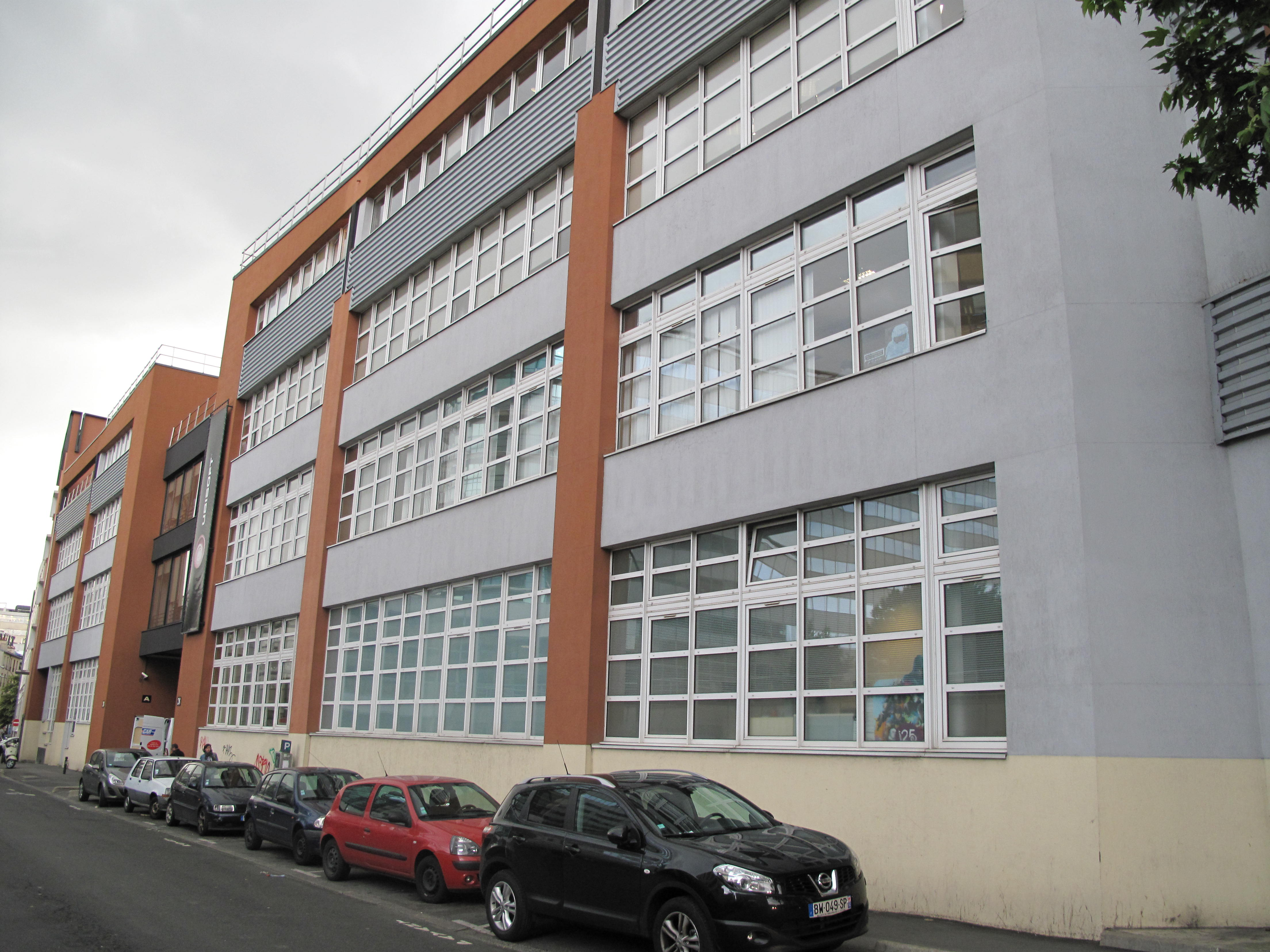 Building at 28 rue Armand Carrel in Montreuil, Seine-St Denis. This image is of the Ubisoft administrative headquarters and the EMEA Ubisoft headquarters.